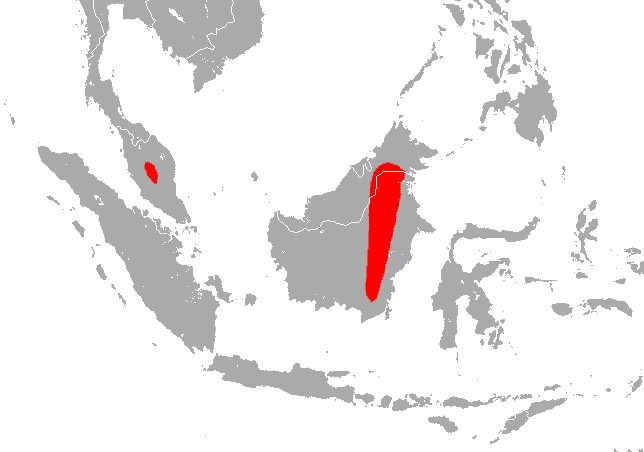 Malayan Tailless Leaf-nosed Bat (Coelops robinsoni) range